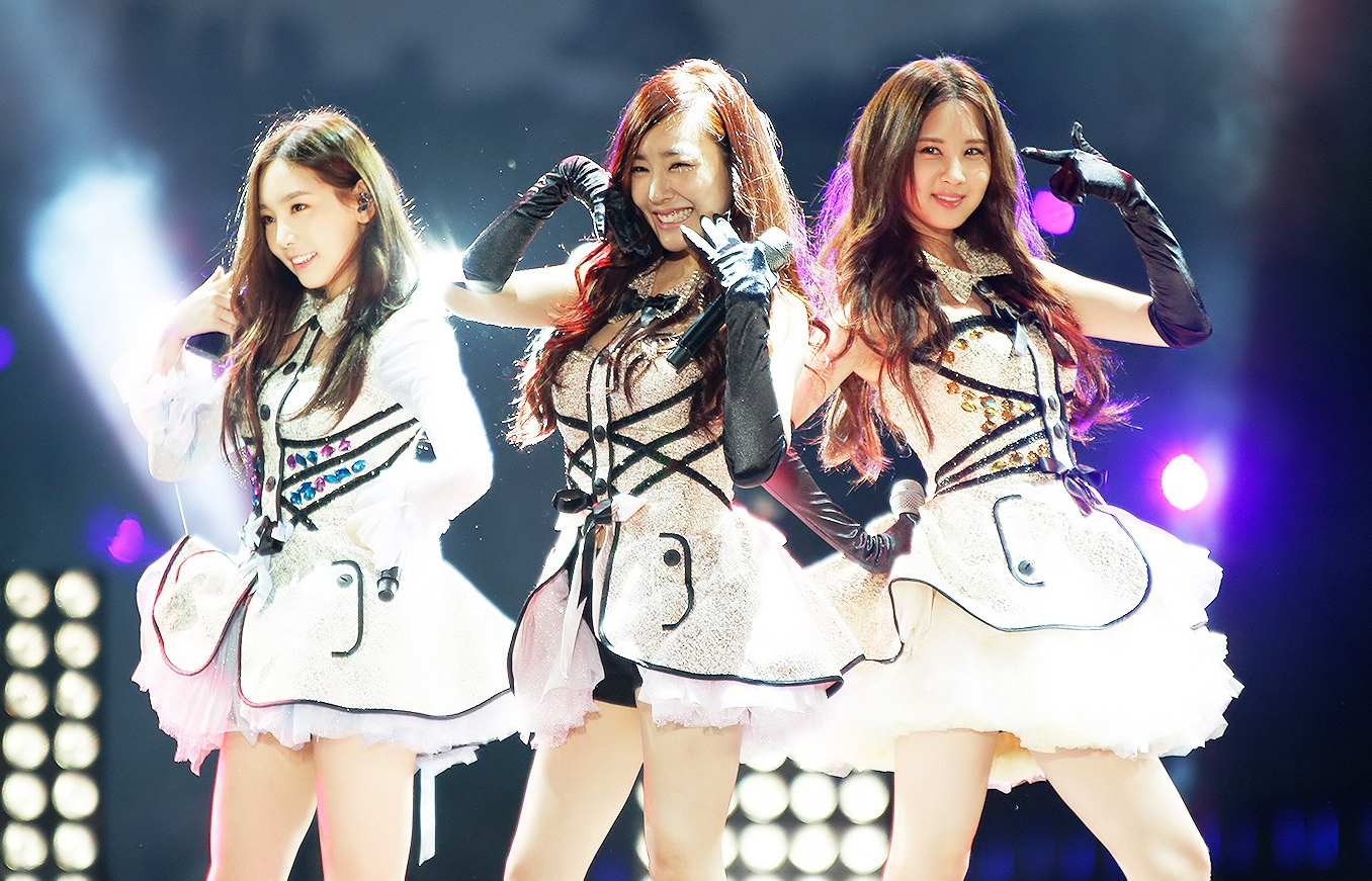 TaeTiSeo at Suncheon Bay Garden Expo International K-POP Concert August 31, 2013.